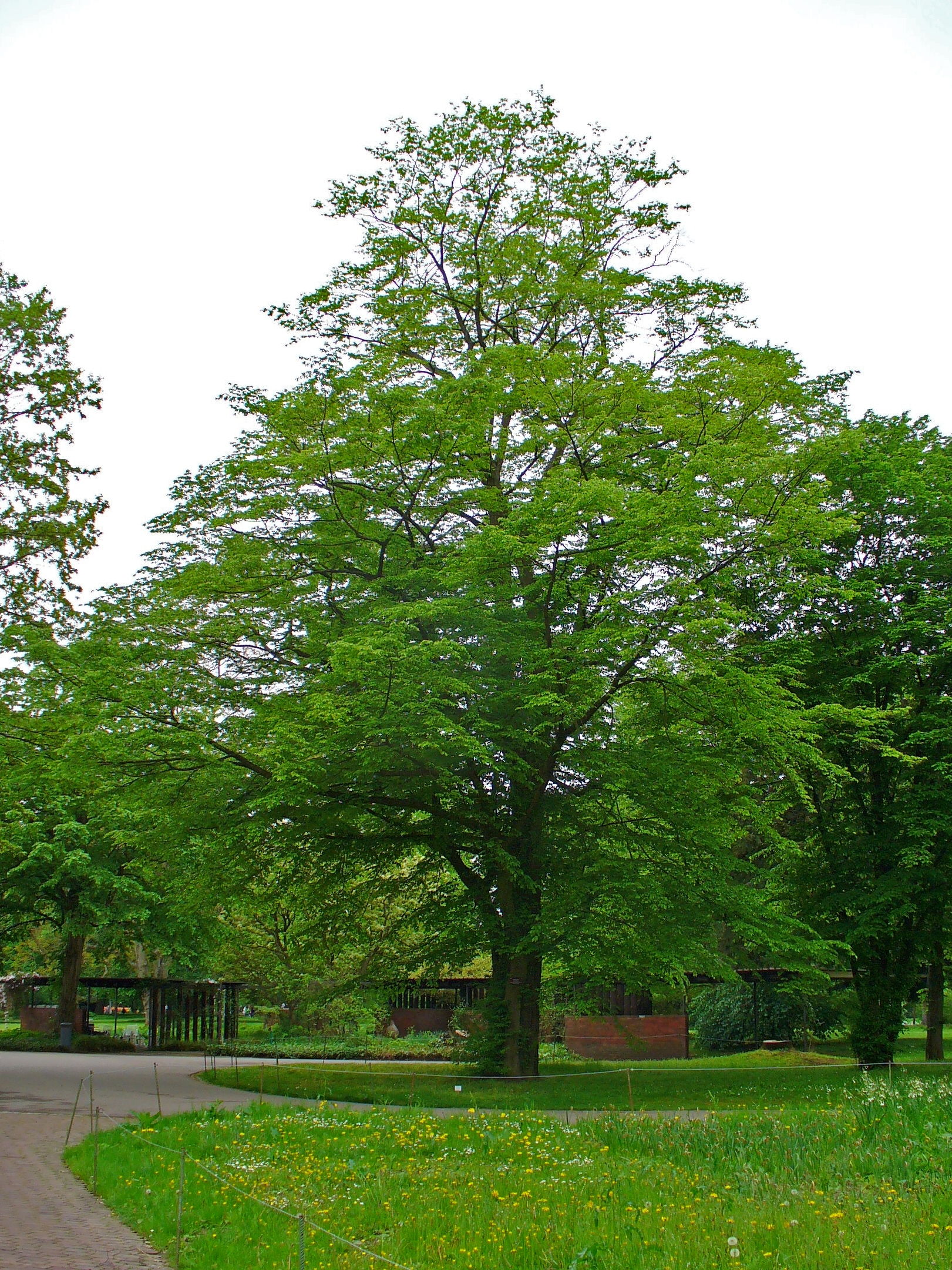 Carpinus betulus, Betulaceae, European Hornbeam, Common Hornbeam, habitus; Stadtgarten Karlsruhe, Germany. The flowers are used in homeopathy as remedy: Carpinus betulus (Carp-b.)